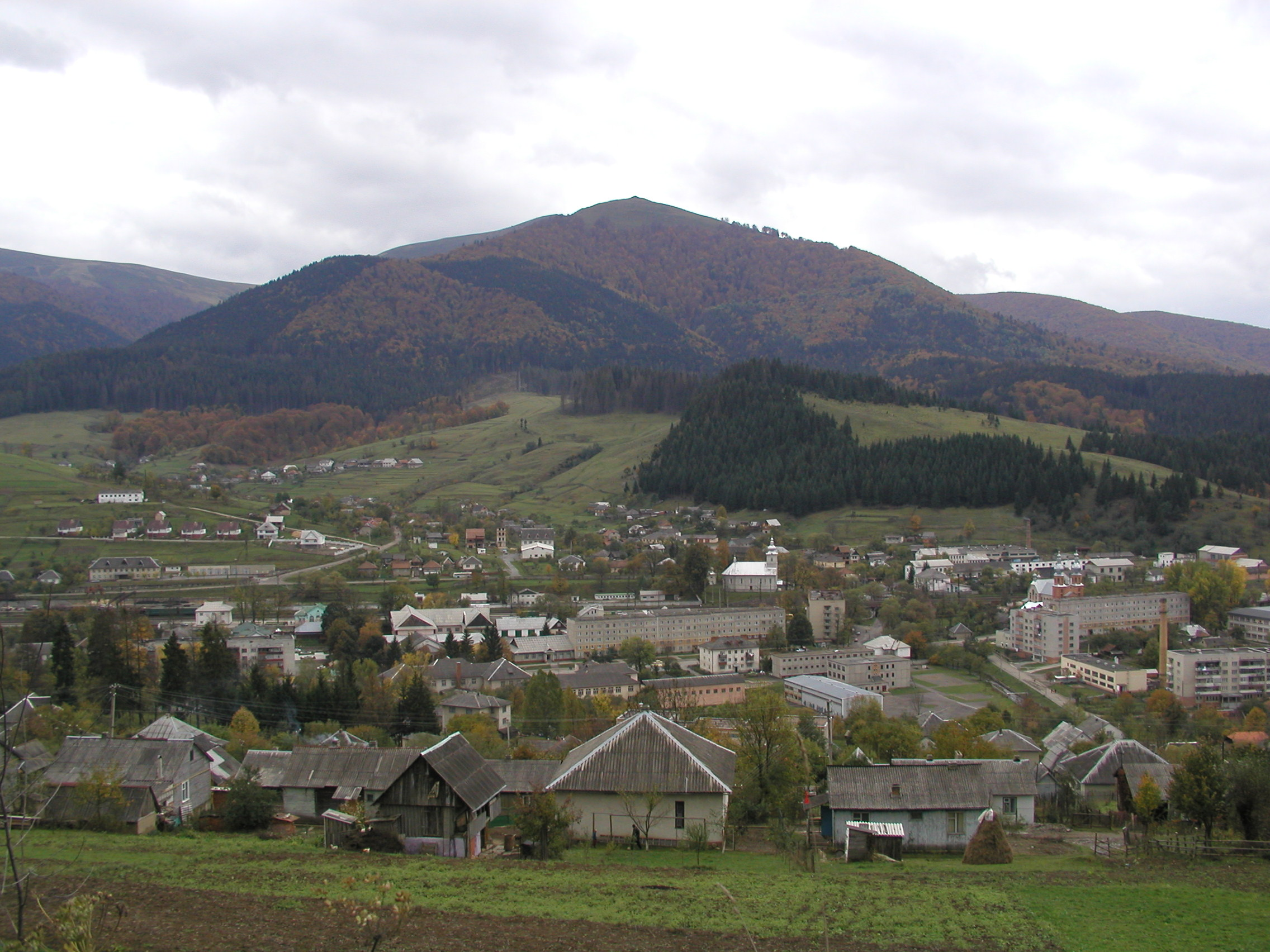 Panoramic view of Volovets